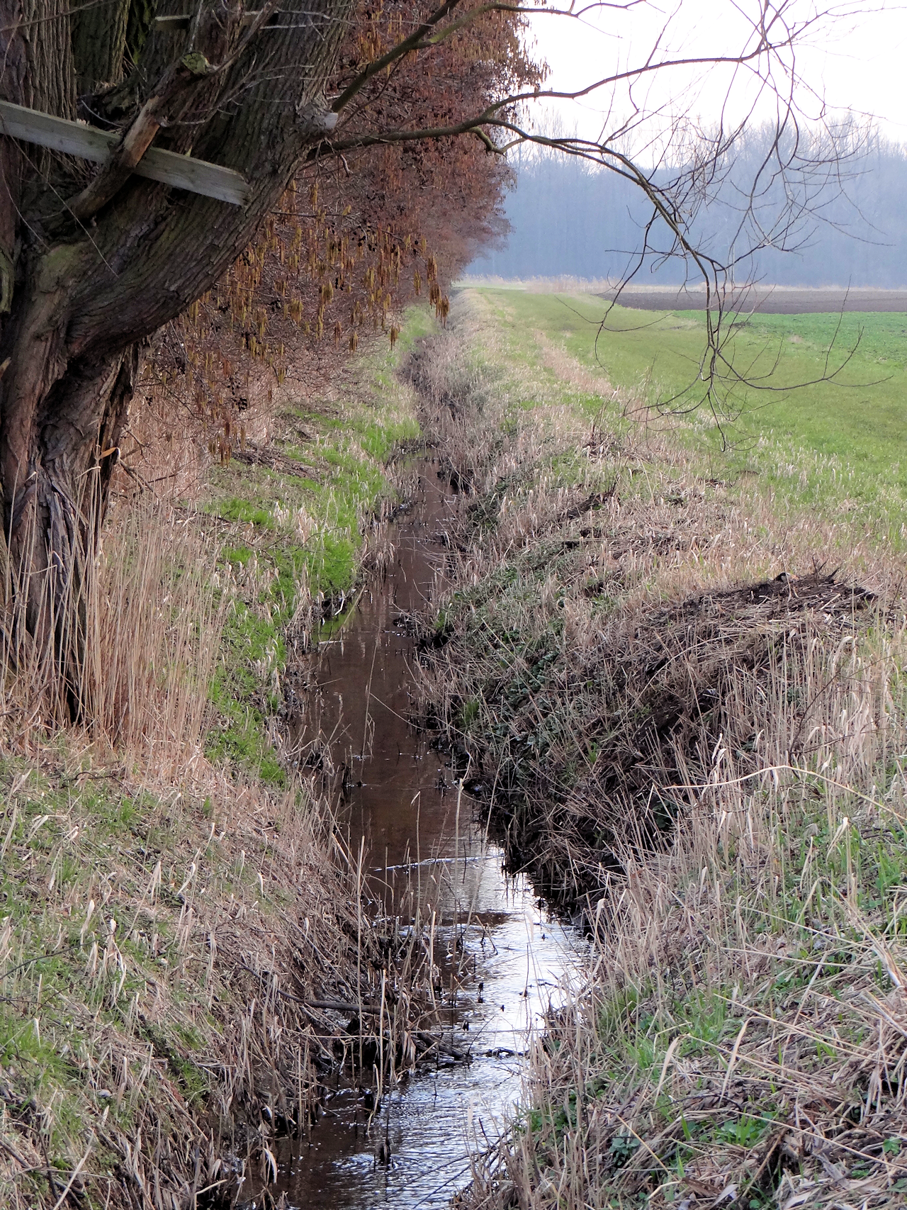 Thiedebach near highway A39